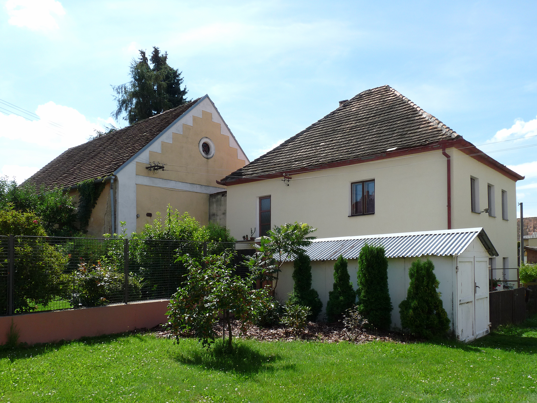 Former synagogue in the village of Tučapy, Tábor District, Czech Republic, rebuilt to a gym. The house on the right is the former Jewish school.